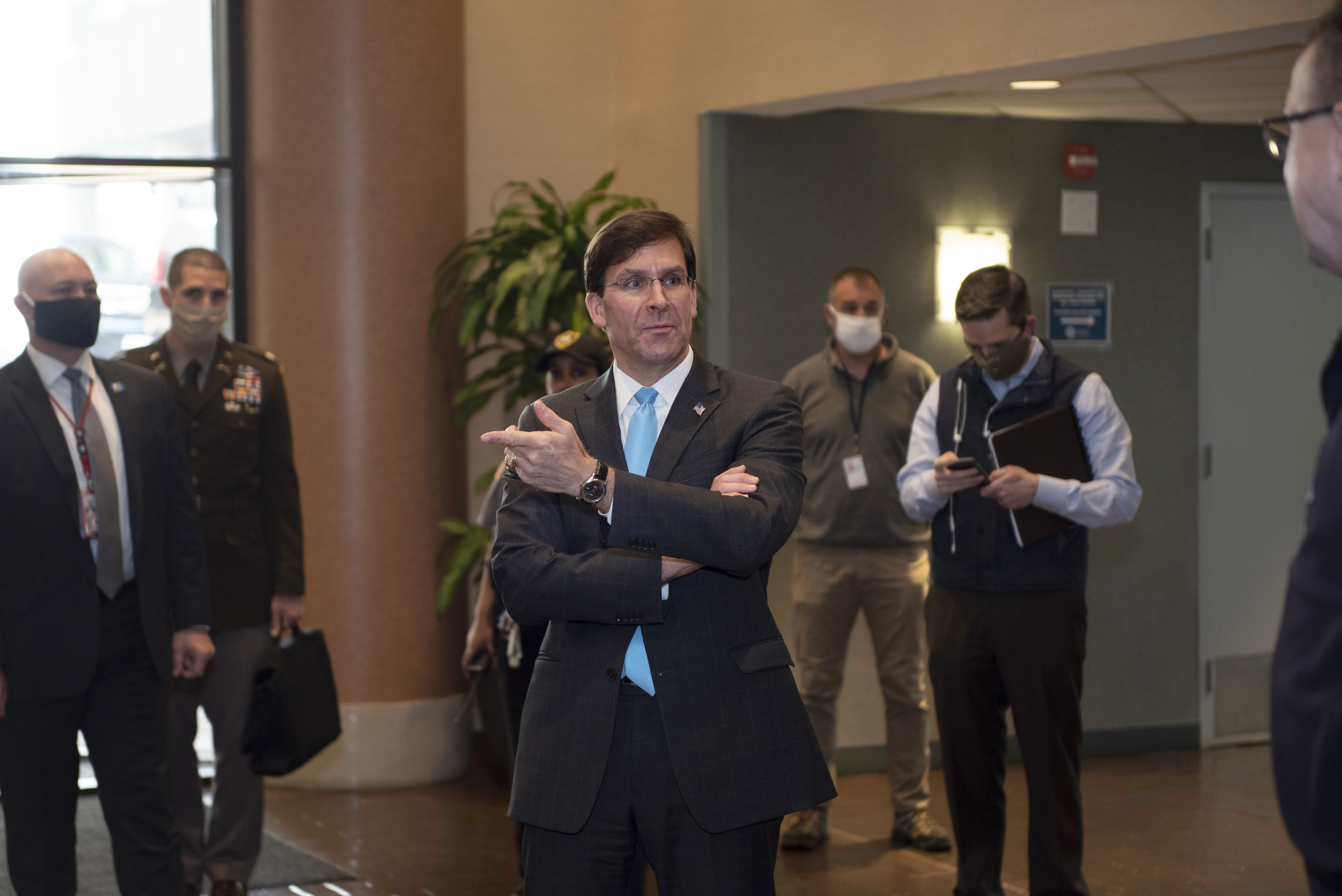 Secretary of Defense Dr. Mark T. Esper is greeted my staff members of the Federal Emergency Management Agency (FEMA), during a visit to FEMA. (DoD photo by Marvin Lynchard)